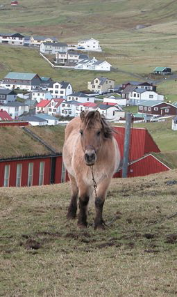 A pony in Porkeri